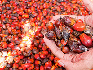 CIFOR's analysis of global forest trends is helping stakeholders manage the impact of trade and investment on forests and forest-dependent communities.